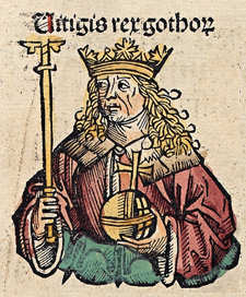 Woodcut from the Nuremberg Chronicle